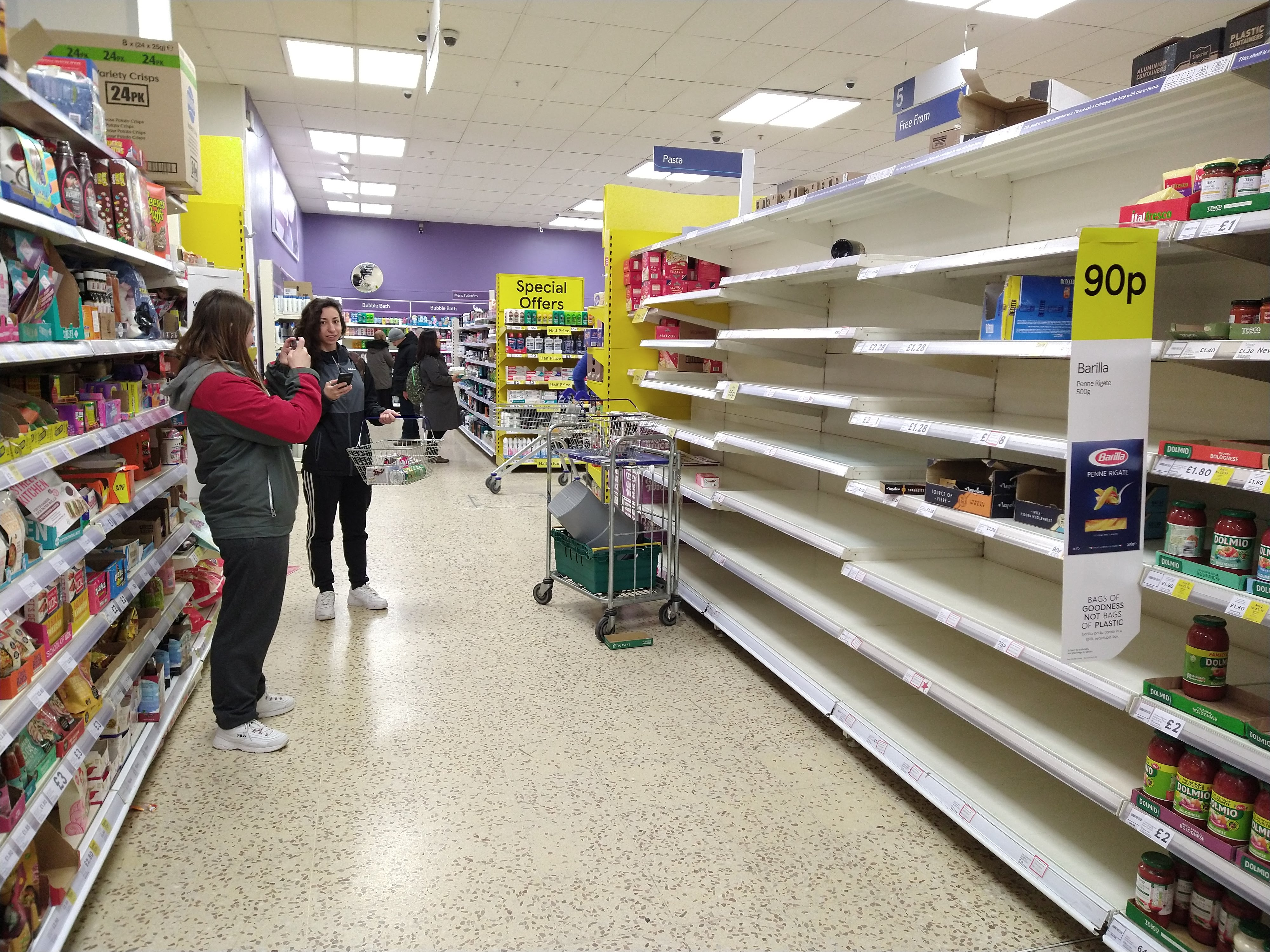 Tesco, Finchley, London